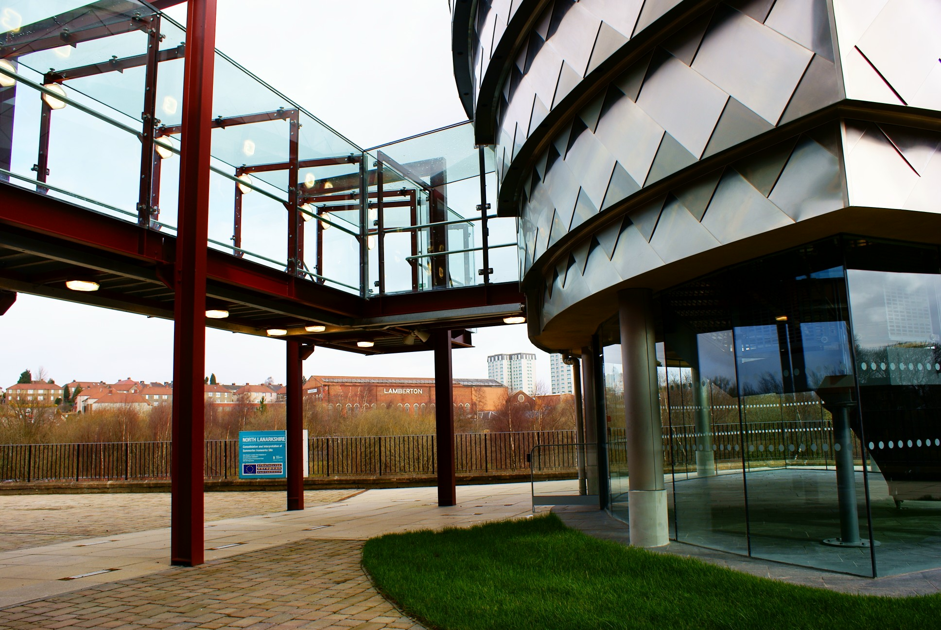 New extension at Summerlee Heritage Park.